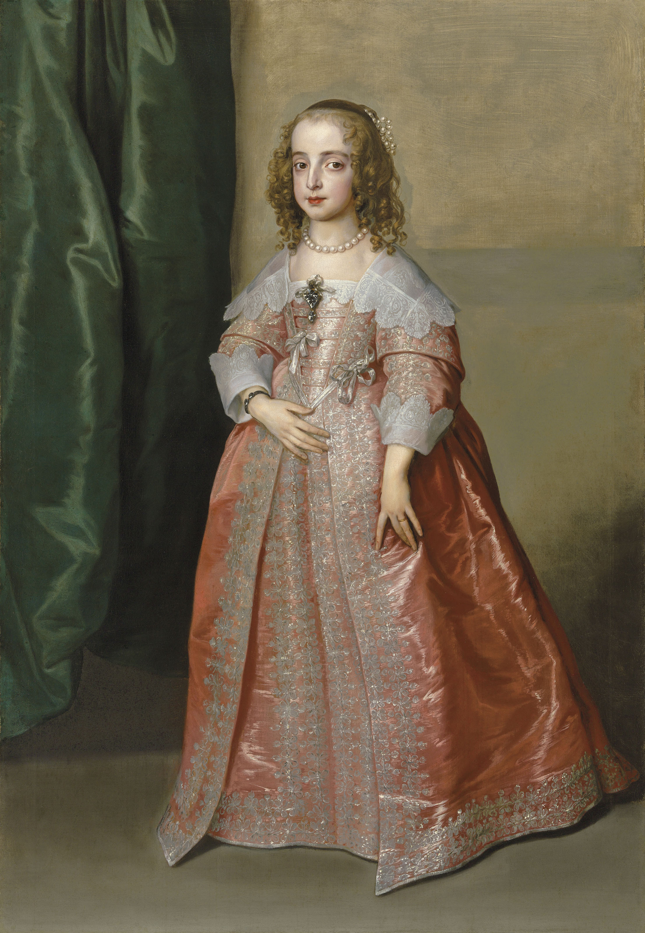 On the day after her marriage, wearing her wedding ring and the necklace received as a wedding gift